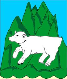 Principality of Svaneti